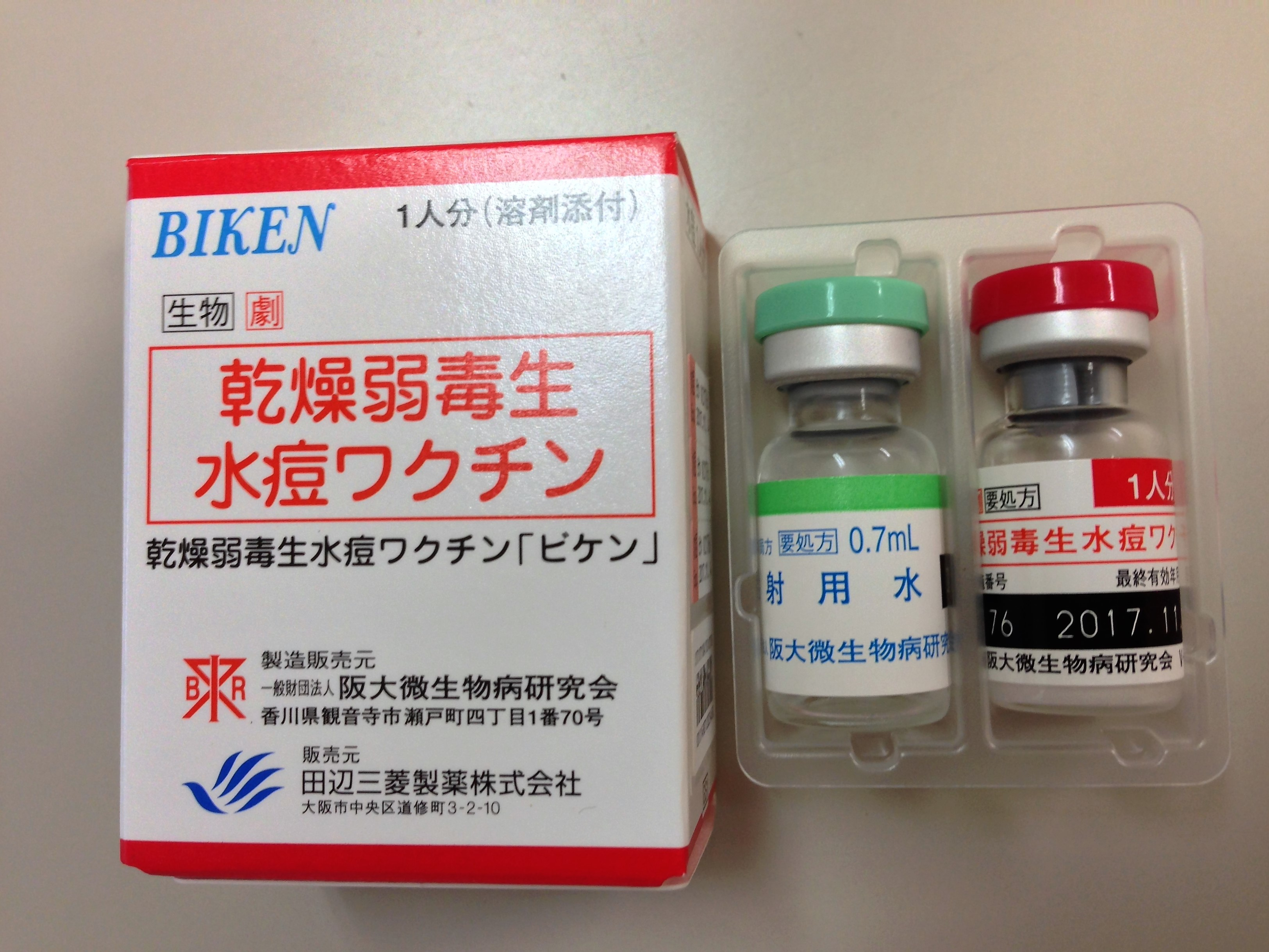 Herpes zoster vaccine